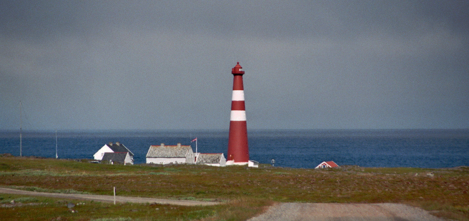 Slettnes / Gamvik / Nordkinnpeninsula / Finnmark / Norway